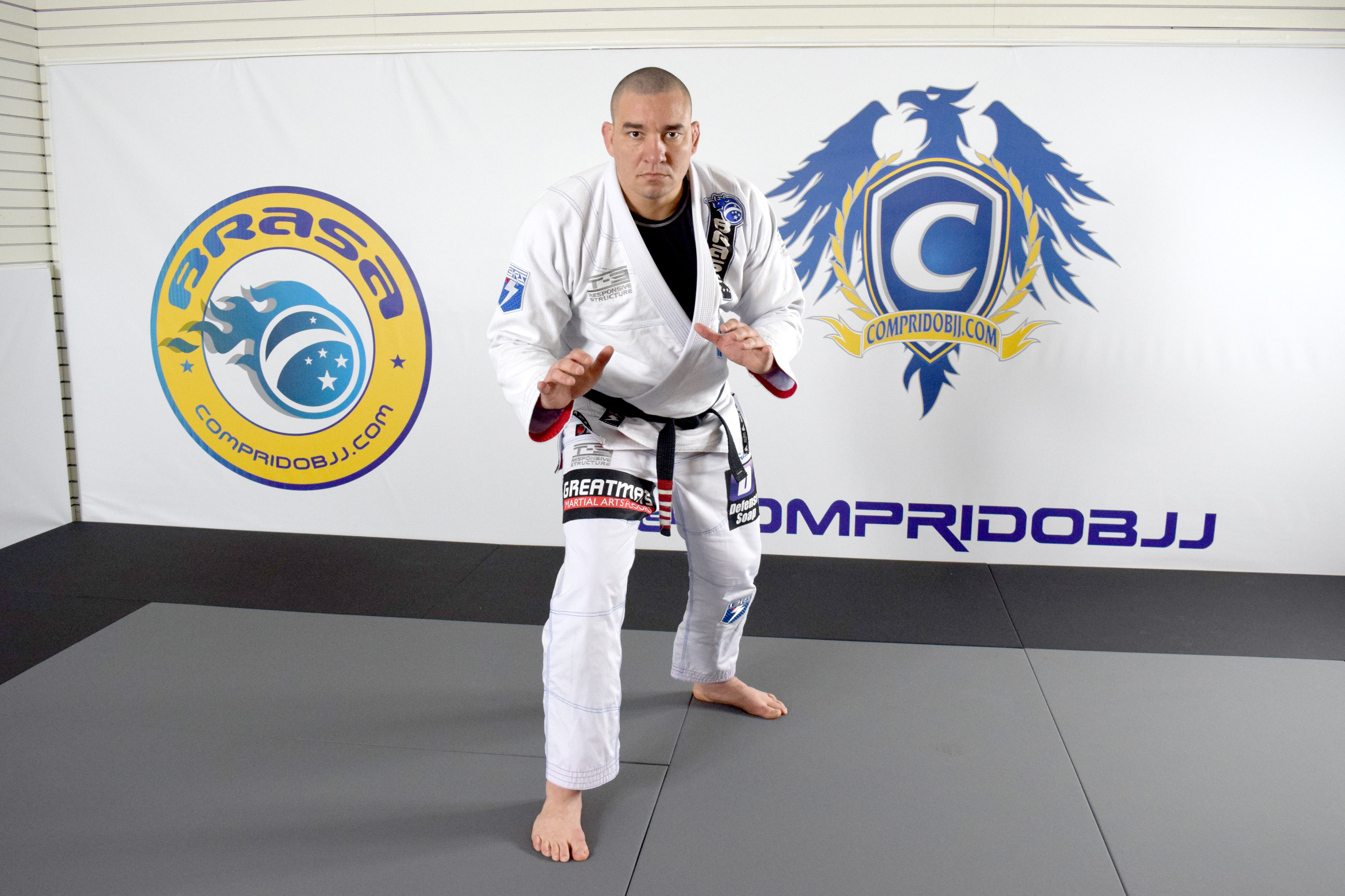 Rodrigo "Comprido" Medeiros at a Greatmats photo shoot at his Comprido BJJ Academy in Bloomingdale, Illinois on April 28, 2017. Comprido is a 7-time world Brazilian Jiu Jitsu Champion and coach to former UFC Champion Brock Lesnar, former Ballator Champion Cole Konrad, and ADCC World Champion Demian Maia.